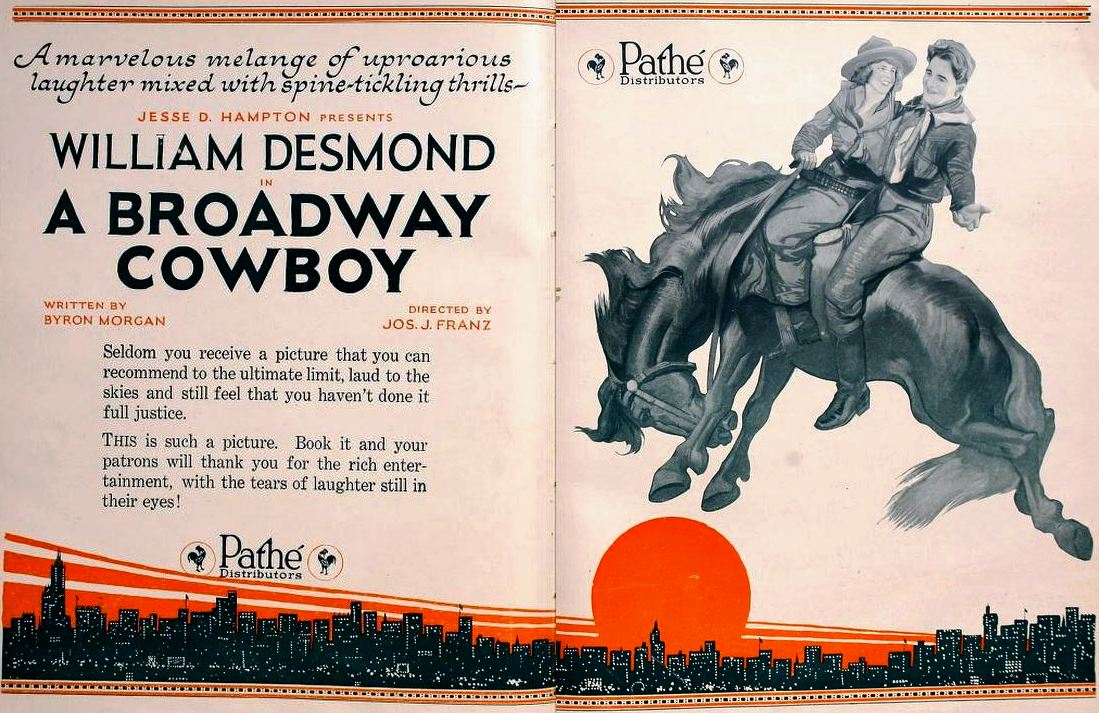 Advertisement for the American western comedy film A Broadway Cowboy (1920) with William Desmond and Betty Francisco, on pages 4960 and 4961 of the June 19, 1920 Motion Picture News.